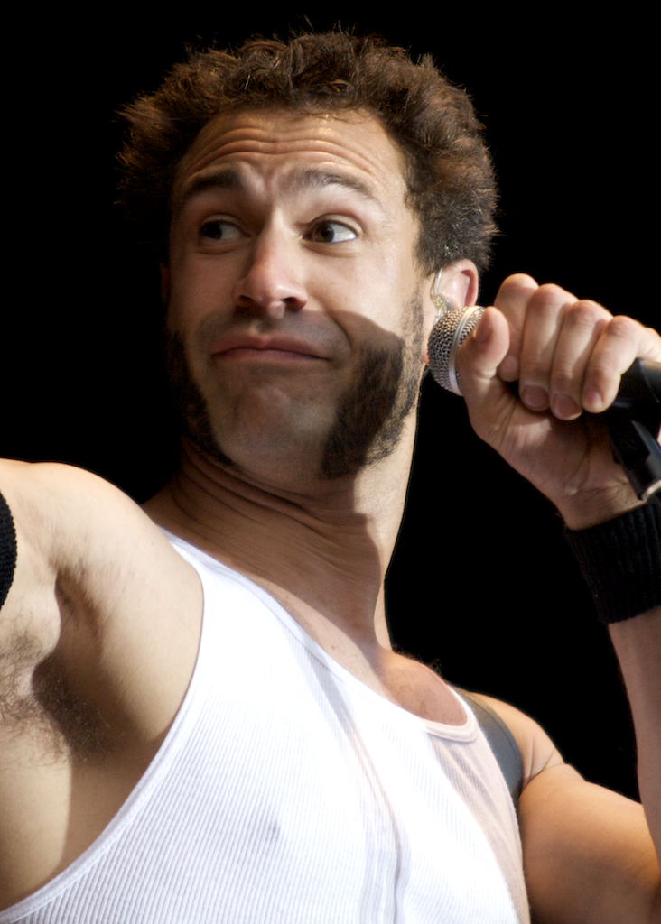 Jared Hasselhoff, bassplayer for the band Bloodhound Gang. Nicknamed "Evil Jared".